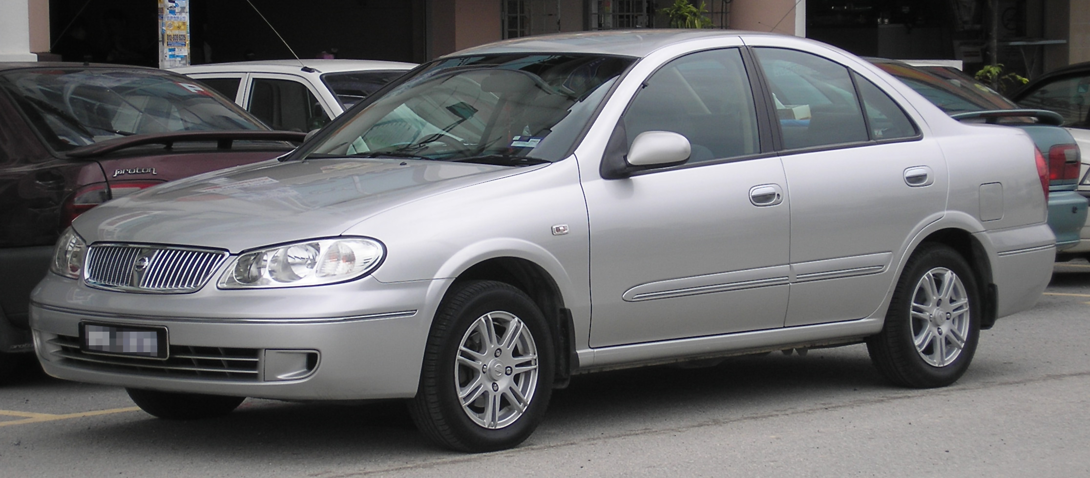 Front-side shot of a first generation, first facelift Nissan Sentra (based on the first generation Bluebird Sylphy/Nissan Pulsar N16), in Serdang, Selangor, Malaysia.